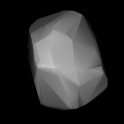 3D convex shape model of 842 Kerstin, computed using light curve inversion techniques. J. Hanuš, J. Ďurech, M. Brož, B. D. Warner (June 2011). "A study of asteroid pole-latitude distribution based on an extended set of shape models derived by the lightcurve inversion method". Astronomy and Astrophysics 530: A134. ISSN 0004-6361. arXiv